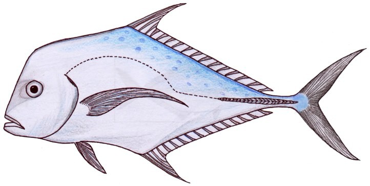 Hand drawn and coloured diagram of the Indian threadfin, Alectis indicus. Based in part on images by Carpenter et al 2002, Swainston, and colour photographs